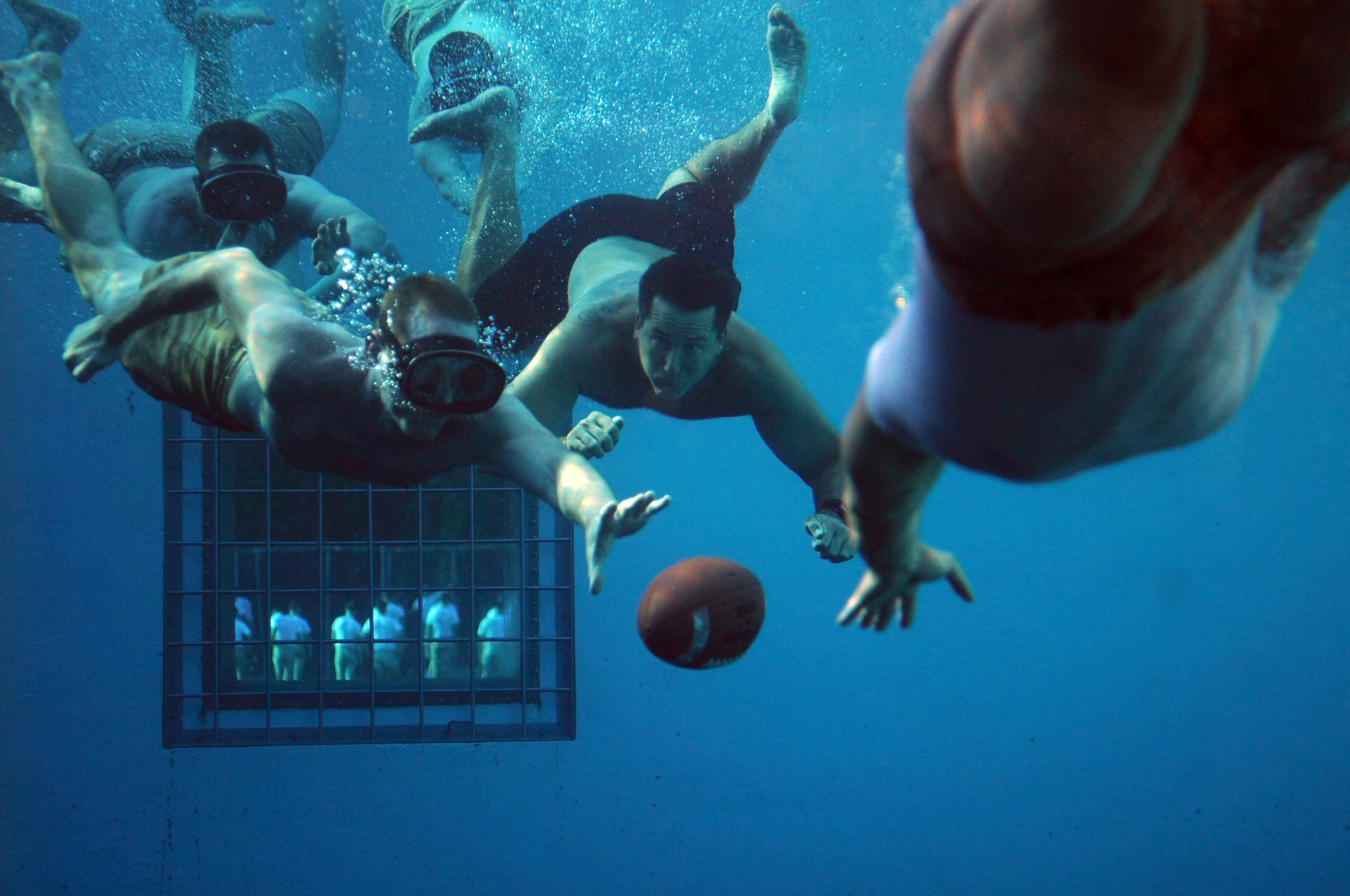 PANAMA CITY, Fla. (June 3, 2011) Students at the Naval Diving and Salvage Training Center play underwater football to cool down after physical training. (U.S. Navy photo by Mass Communication Specialist Abraham Essenmacher/Released)